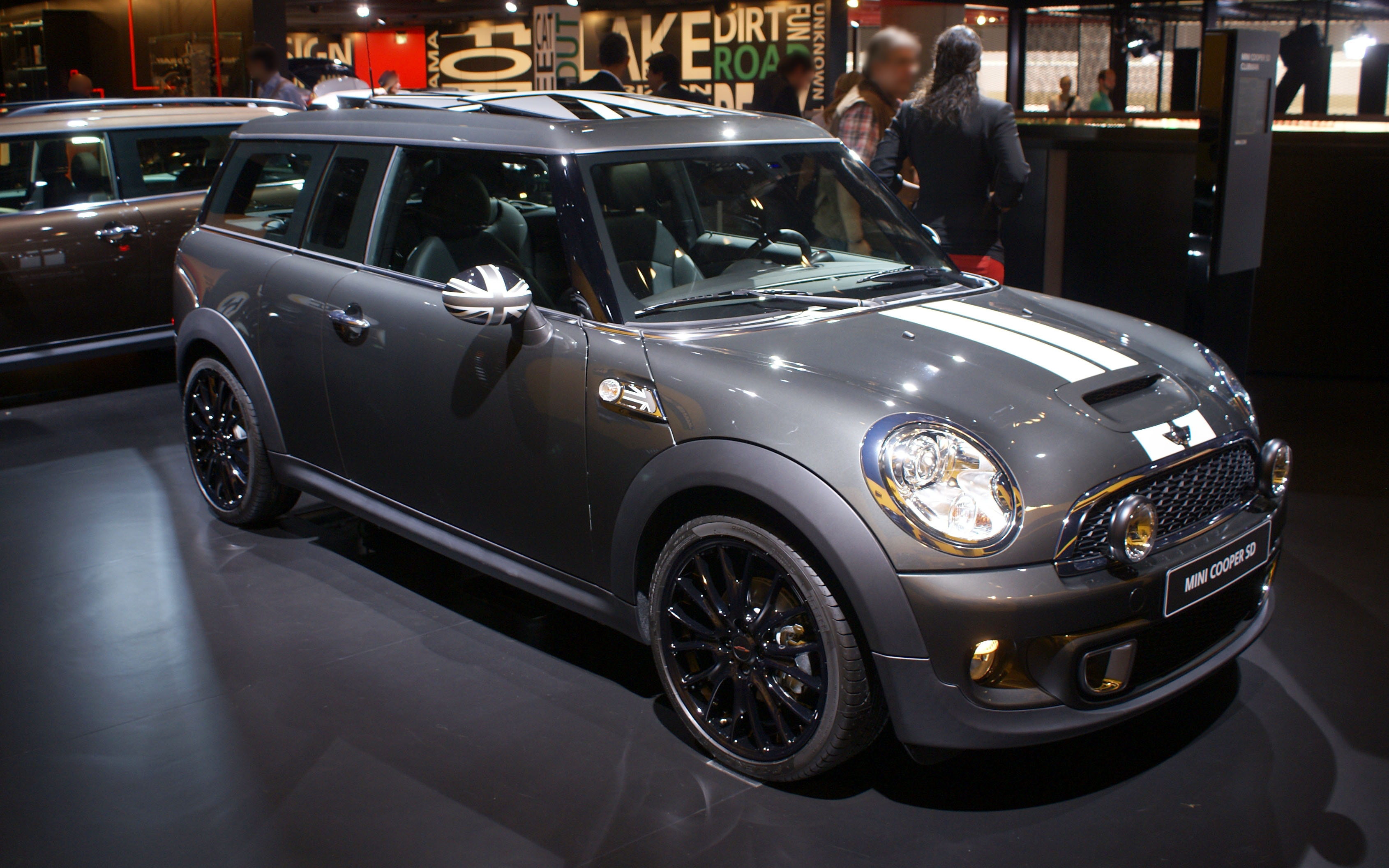 Mini Cooper SD Clubman